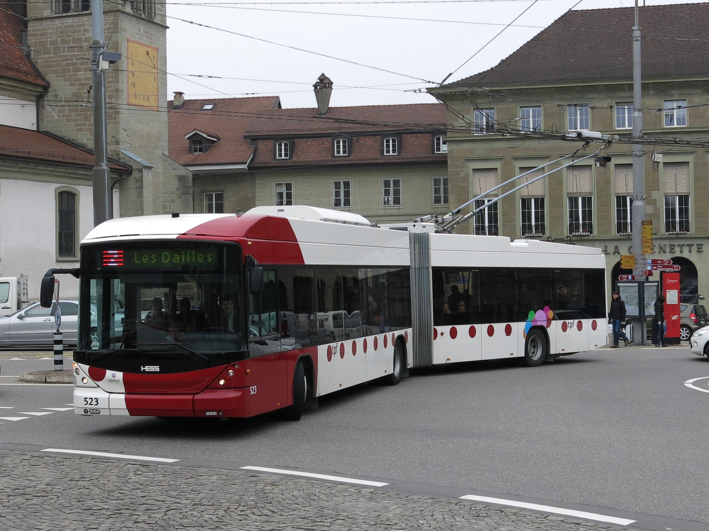 Fribourg, Switzerland Hess Swisstrolley 3 articulated trolleybus of the series 522–533 at Place de Notre-Dame